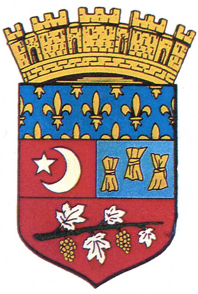 Mascara, Algeria (French Coats of arms)